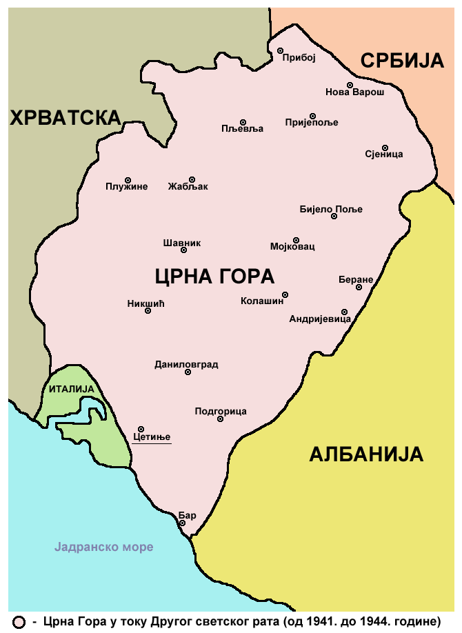 Map of Montenegro during World War II (1941-1944) - Serbian / Montenegrin language version.